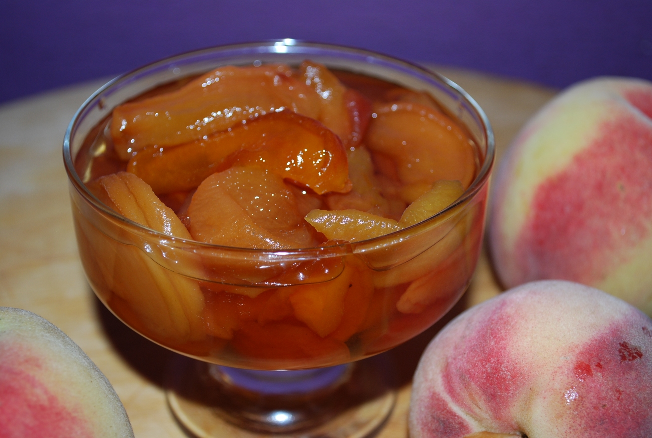 Peach murabba (varenye)